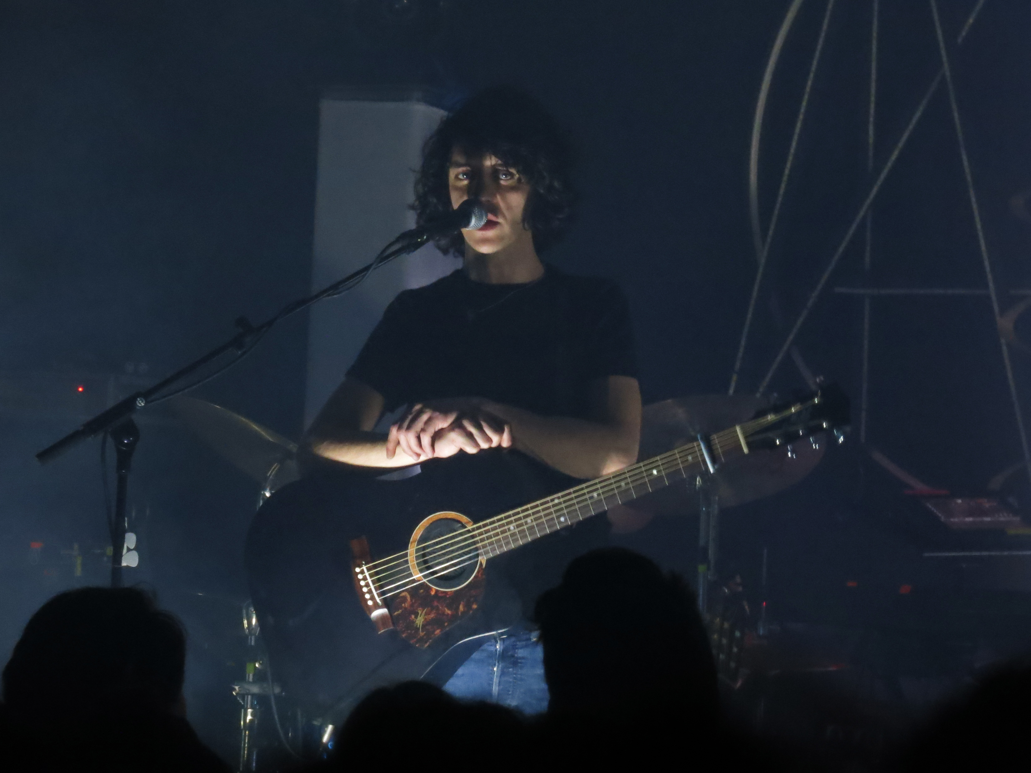 Francesco Motta playing live at Deposito Pontecorvo (Pisa, Italy) during "La fine dei vent'anni tour"